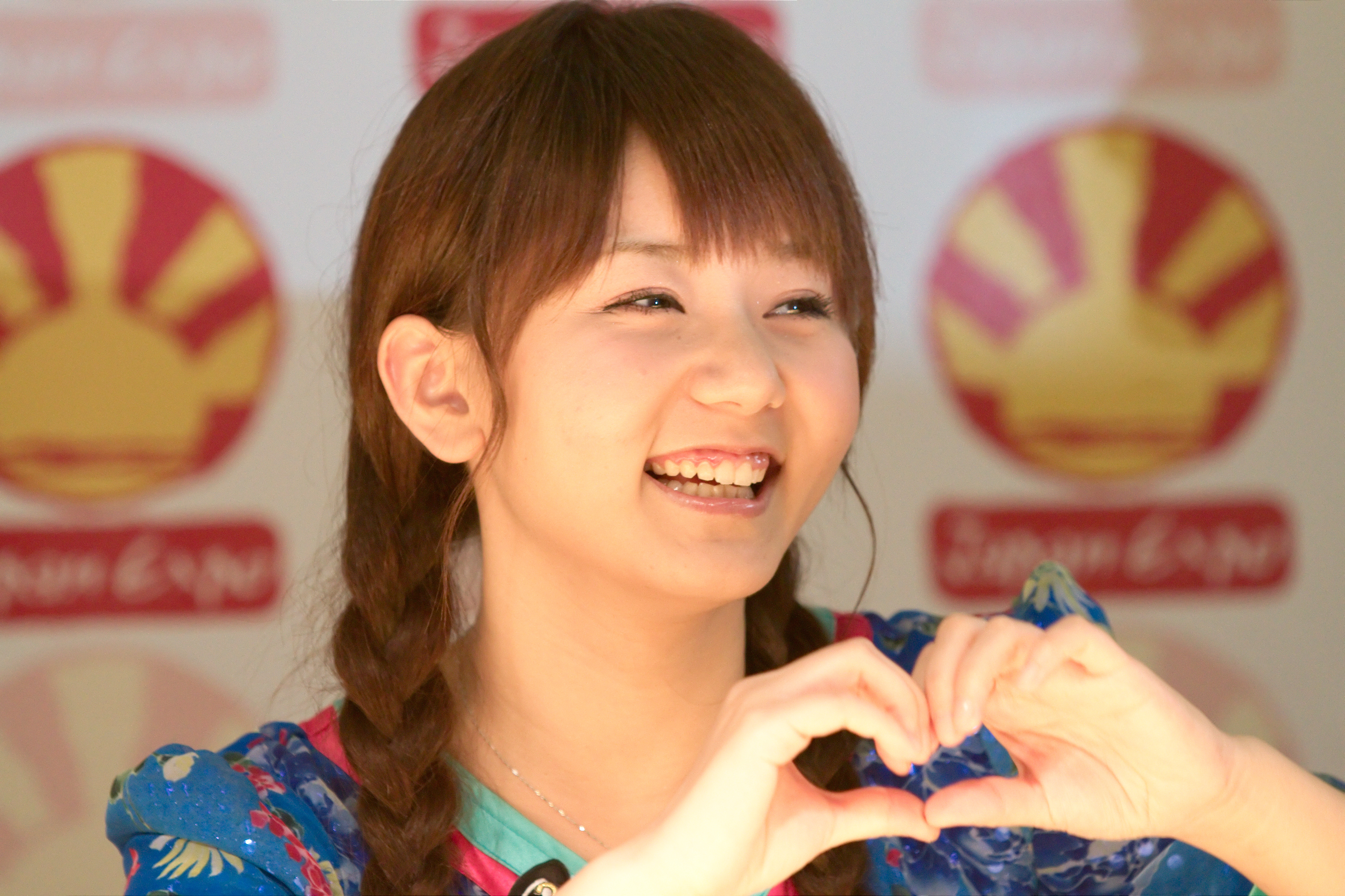 Jun Jun of Morning Musume during autograph session at Japan Expo, Sunday, July 03, 2010 (Paris, France).